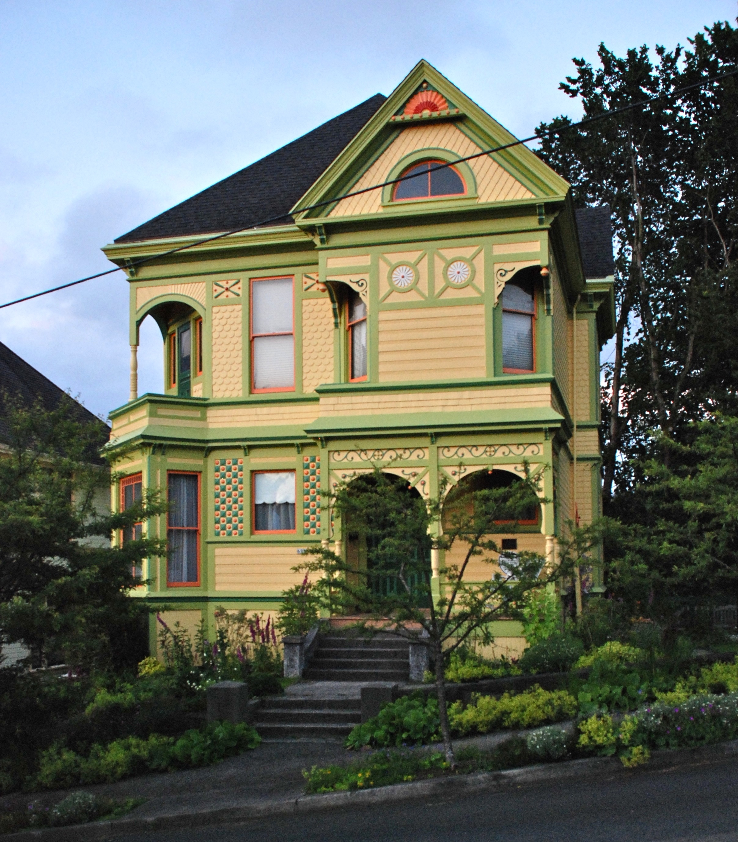 The Martin and Lilli Foard House (built in 1891), in Astoria, Oregon, is listed on the U.S. National Register of Historic Places.